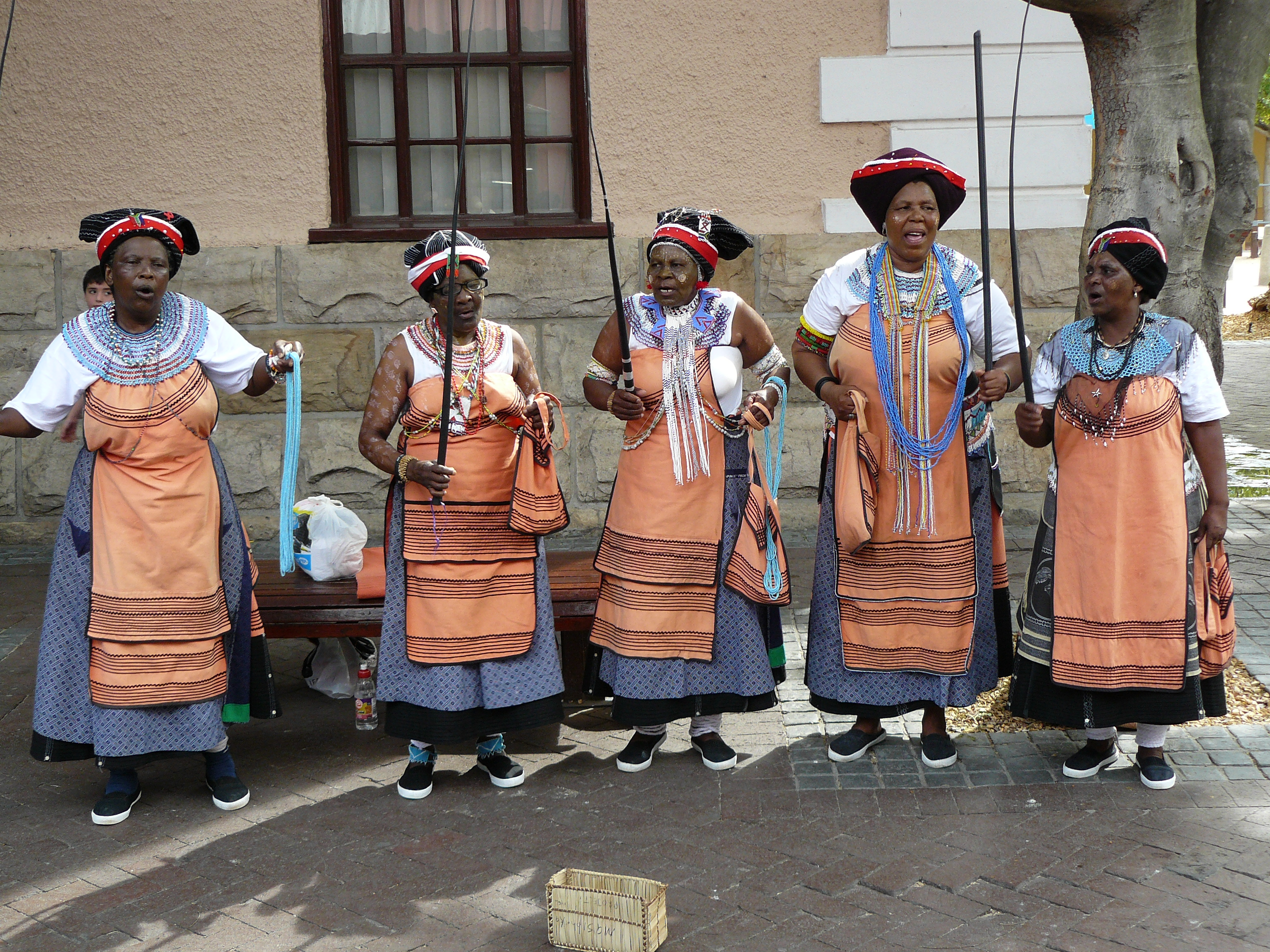 Five Xhosa women performing in traditional Xhosa costumes and facepaintings. Picture from the Waterfront in Cape Town.